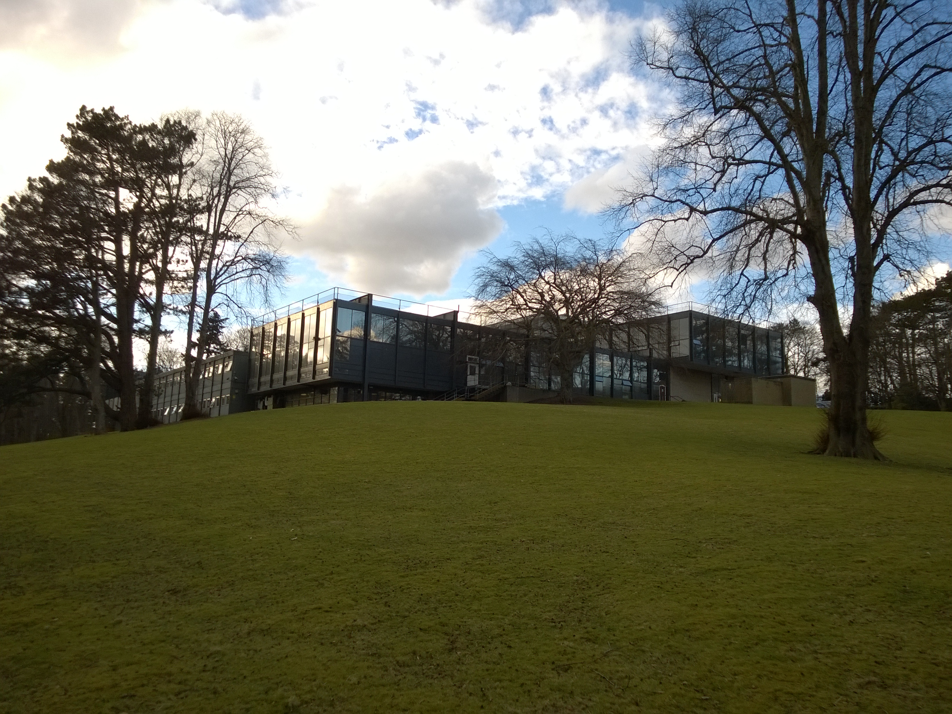 The Gray's School of Art building was constructed in 1966. At left of picture, the temporary pre-fabricated extension can be seen, added in the 1990s and quite different to the modernist style of the building.